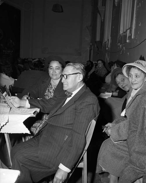 Turi Carroll at the Maori Women's Welfare League conference, Wellington, 1953